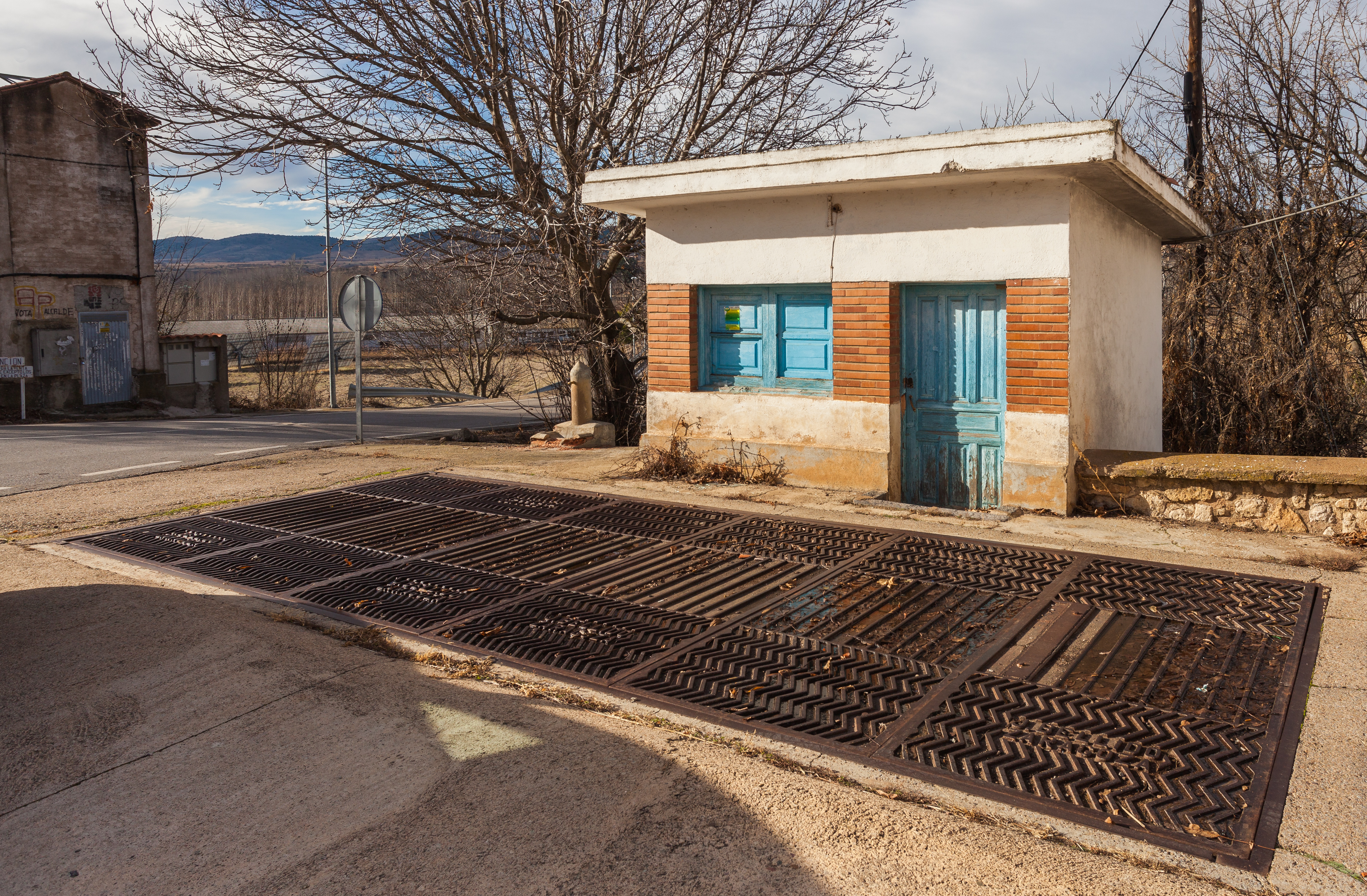 Weighing scales, San Martín del Río, Teruel, Spain